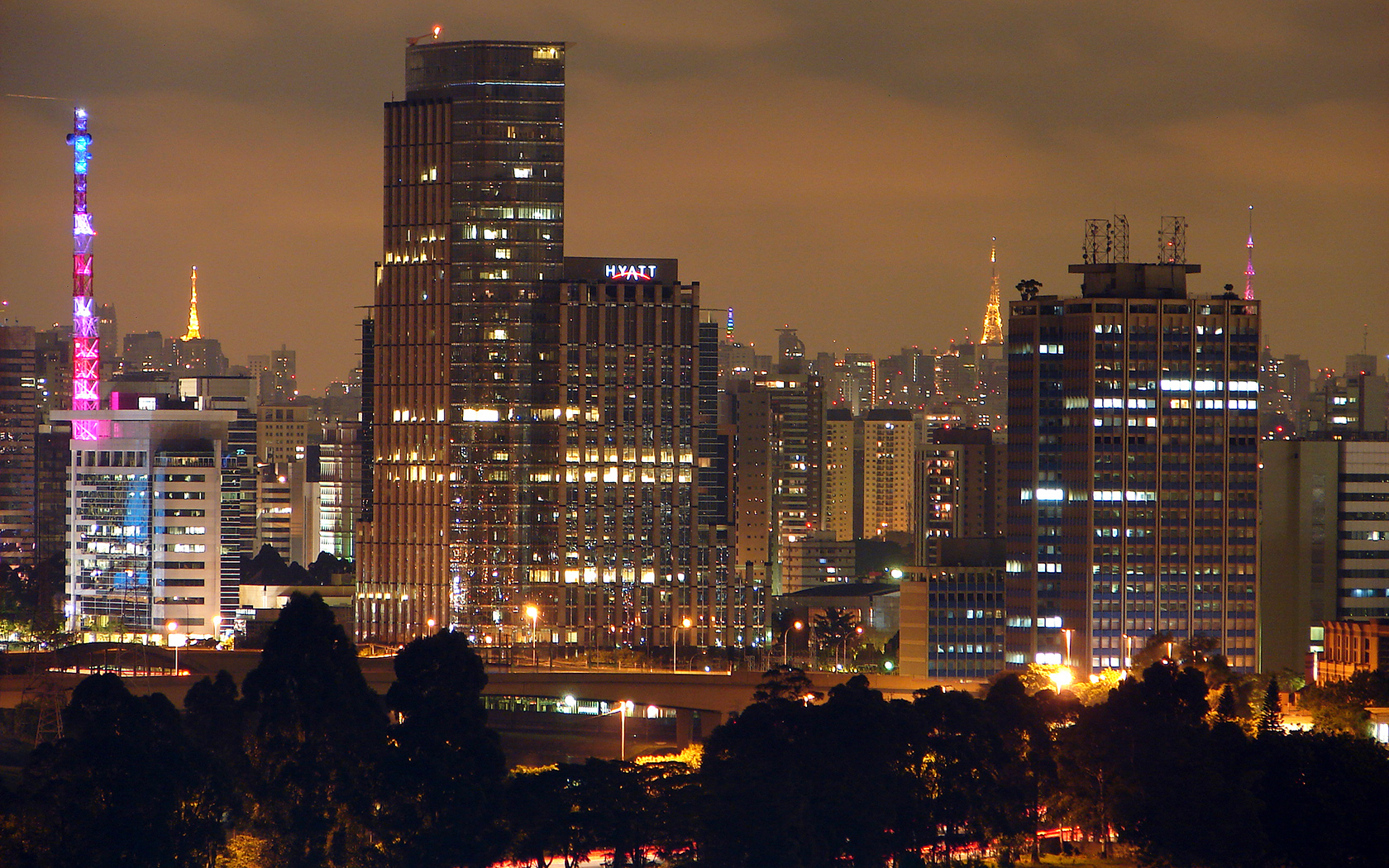 Skyline of São Paulo, Brazil